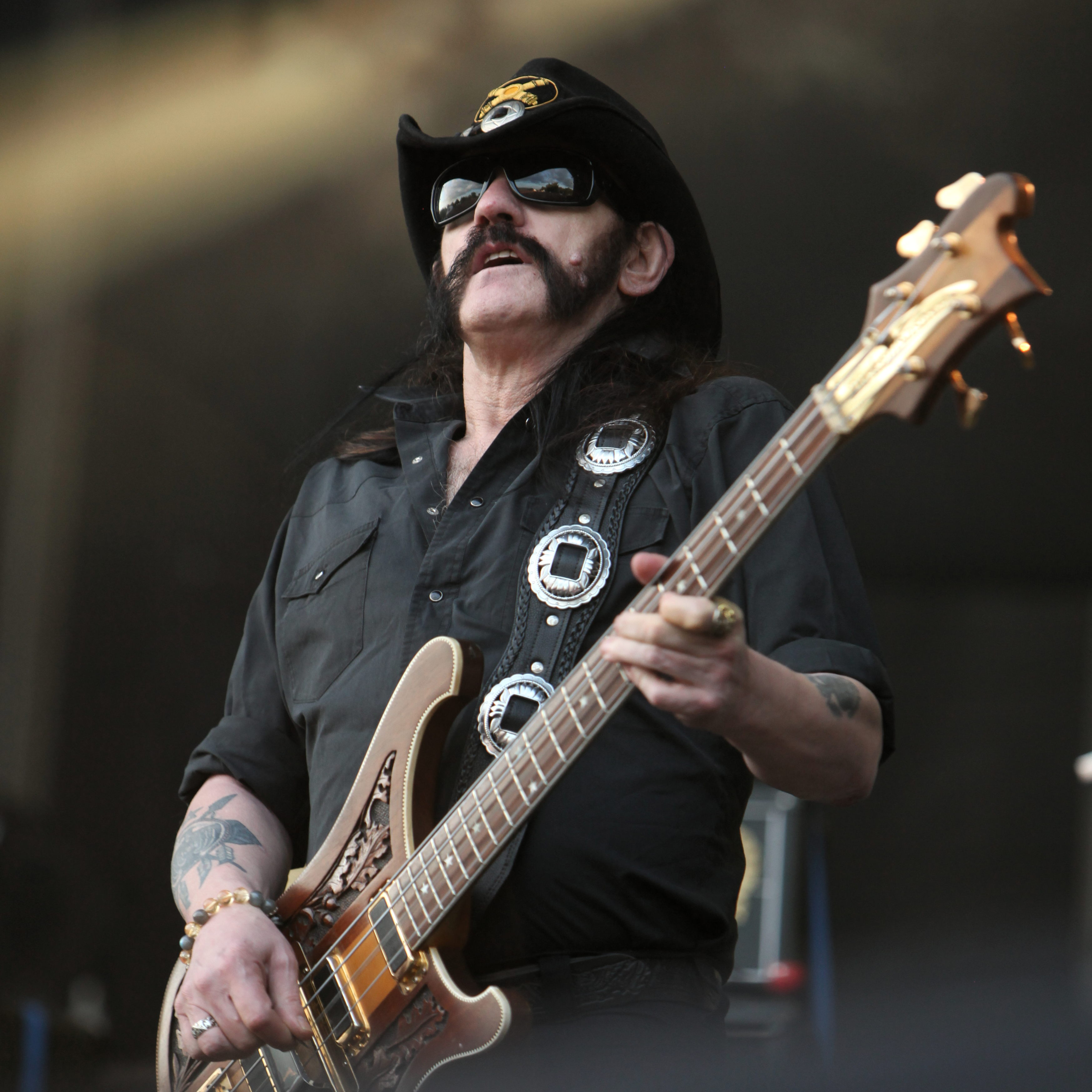 Motörhead at the Eurockéennes de Belfort 2011 The making of this document was supported by Wikimedia CH. (Submit your project!) For all the files concerned, please see the category Supported by Wikimedia CH.